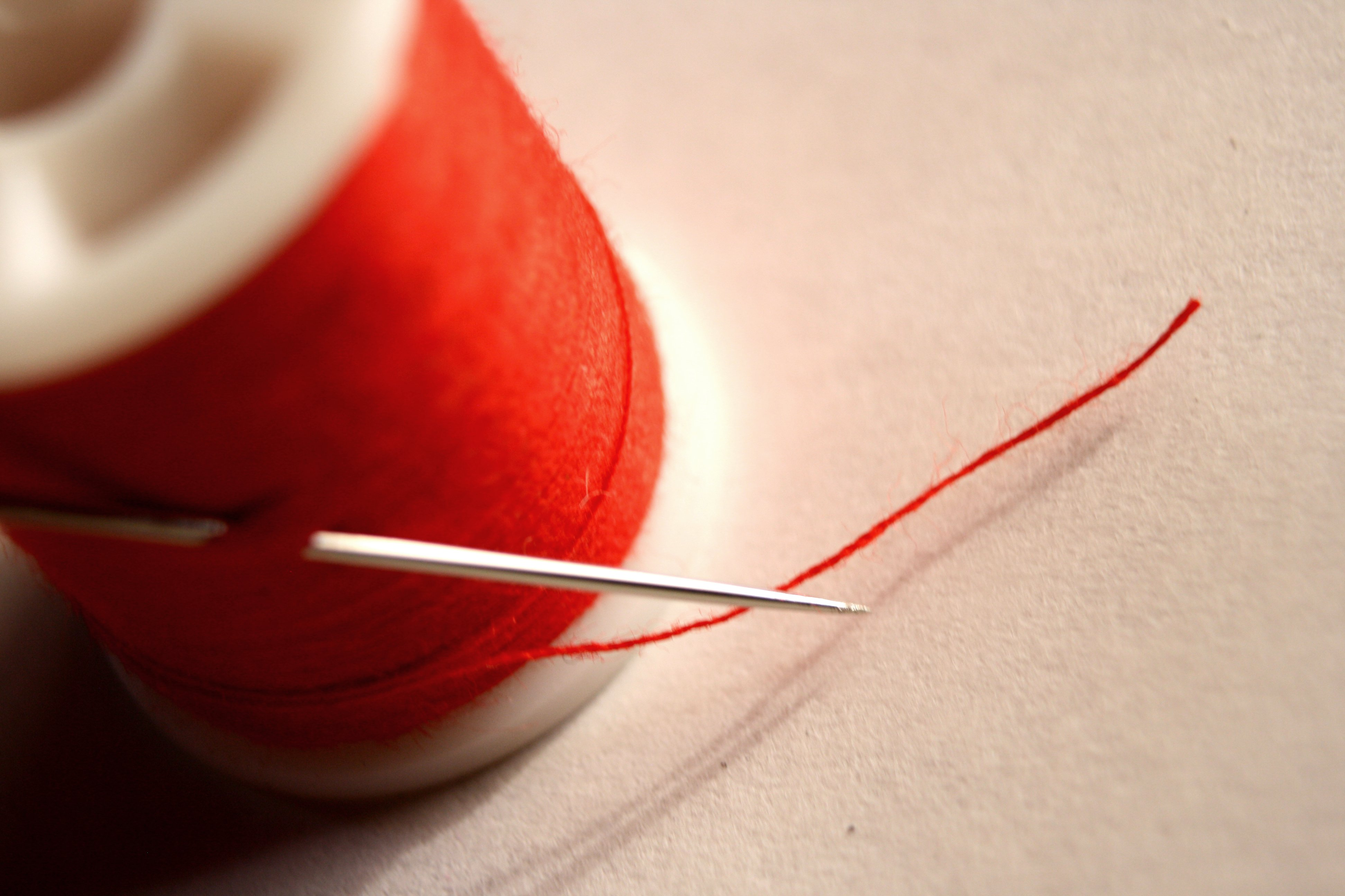 A needle and red string